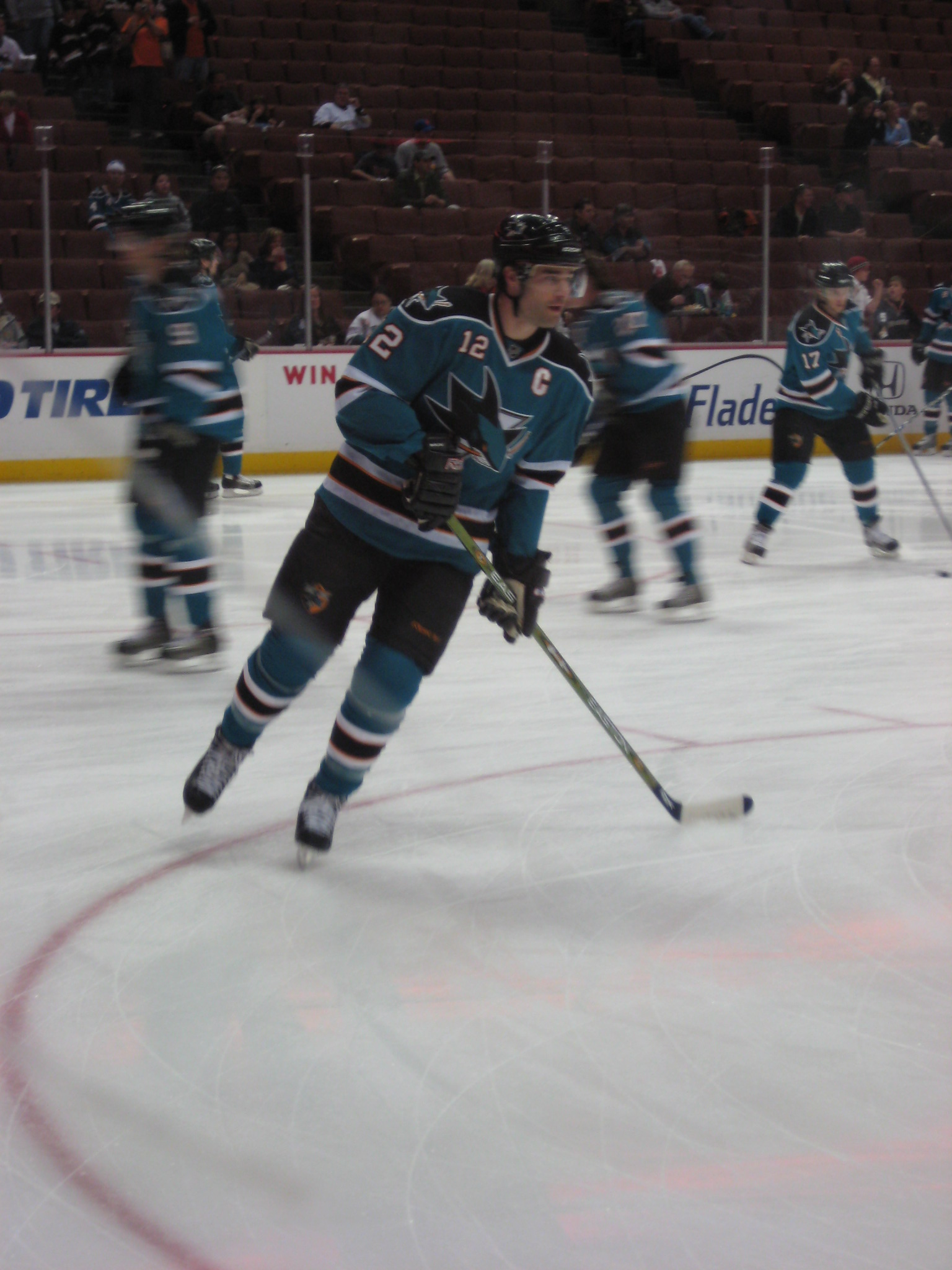 Marleau in warmups before a game against the Anaheim Ducks on March 28, 2008